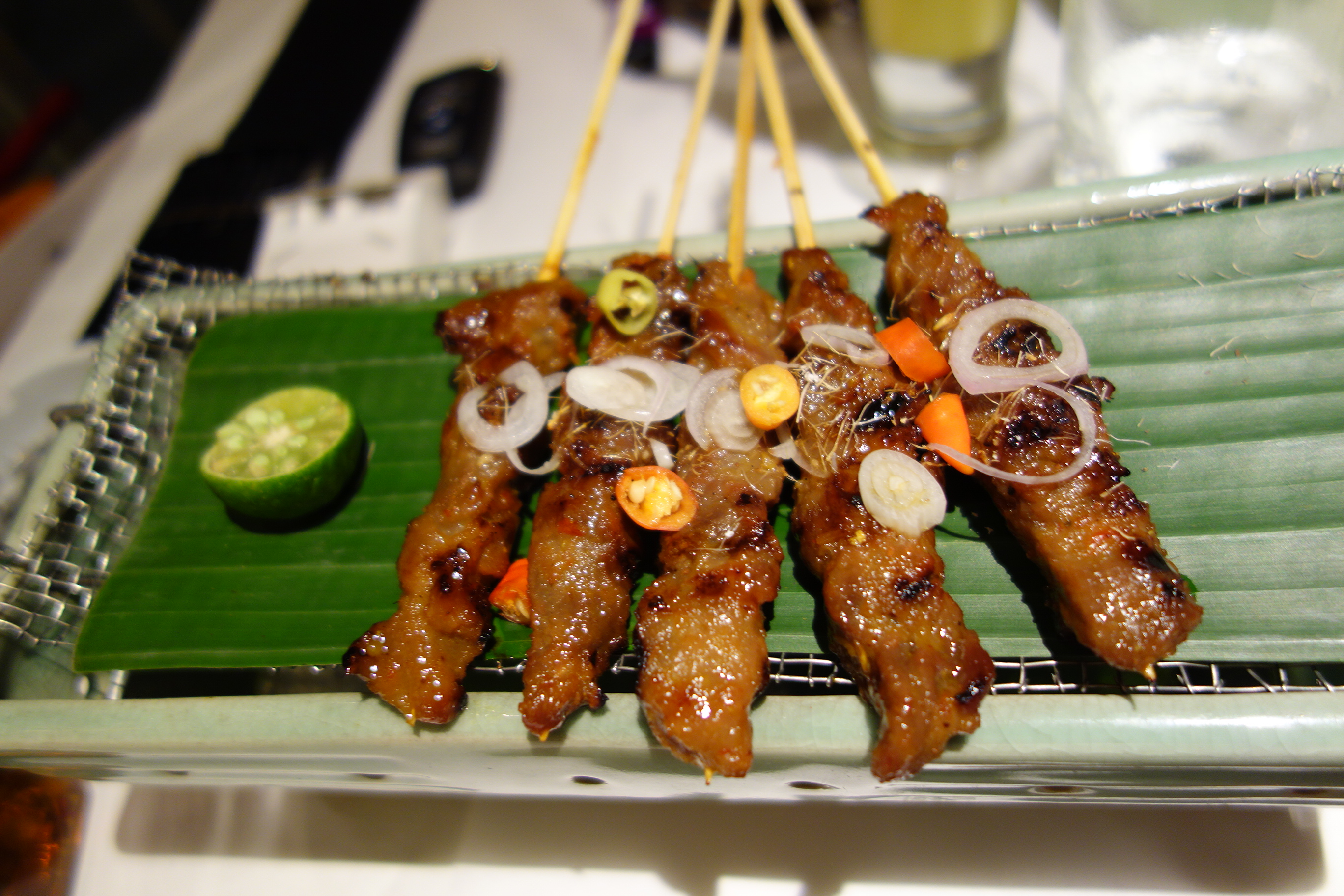 A portion of chicken satay in Jakarta